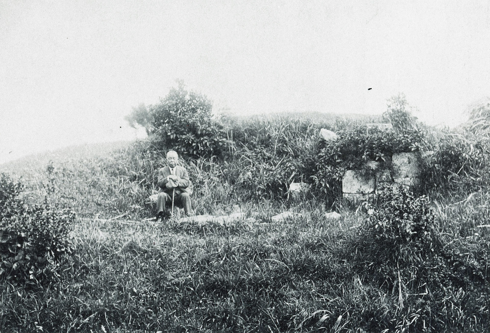 The old tomb of Tamagusuku Chokun,Urasoe, Okinawa, Japan